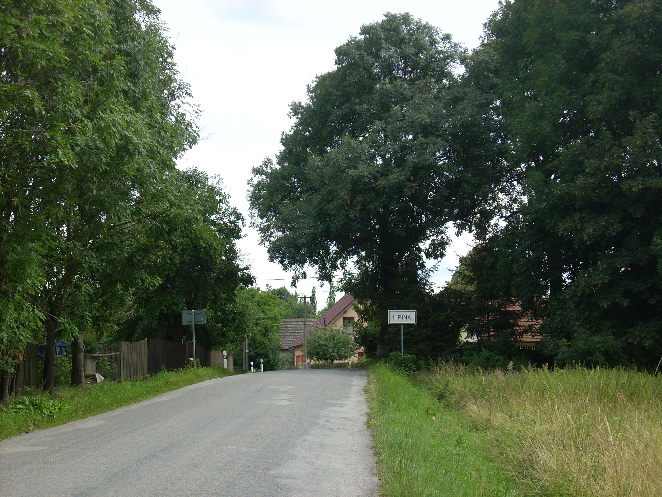 Lipina, Jamné